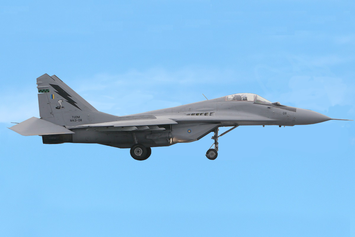 M43-08 Returning to SZB after a National Day flypast rehearsal. Malaysia celebrates its 50th years of independence on August 31st.